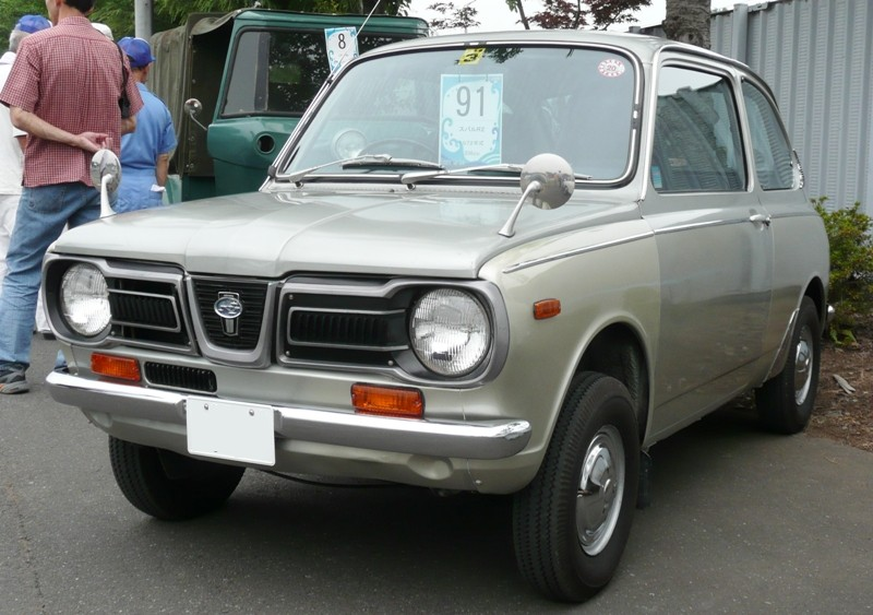 Subaru R-2.